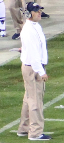 Pittsburgh Panthers offensive coordinator Joe Rudolph, 2013